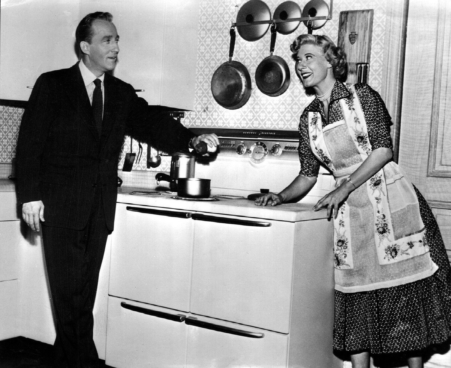 Photo of Joan Davis and guest star Bing Crosby from the television program I Married Joan.